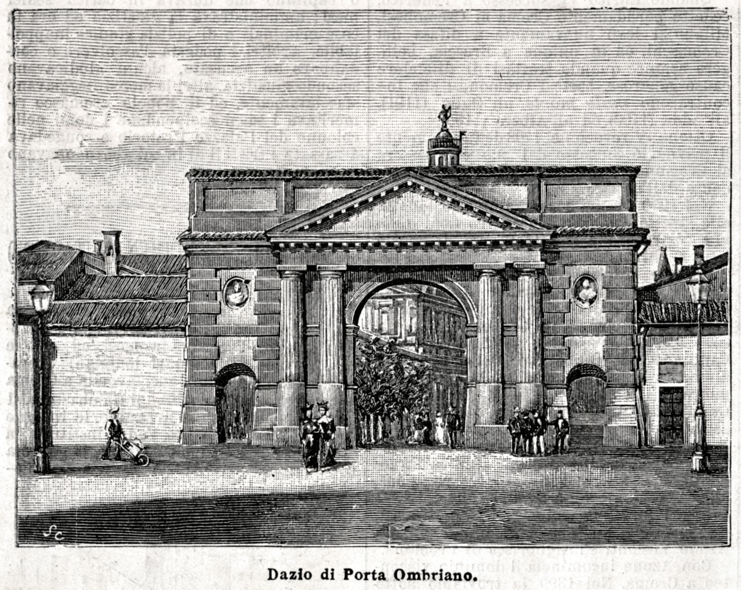 Taken from "Le ceno città d'Italia", illustrated monthly supplement of the "Il Secolo", Sonzogno Publisher, Thursday, April 30, 1896. Porta Ombriano is depicted with the duty tolls.